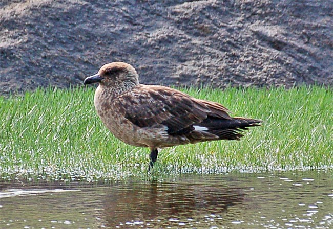 Skua on Runde (Stercorarius skua)